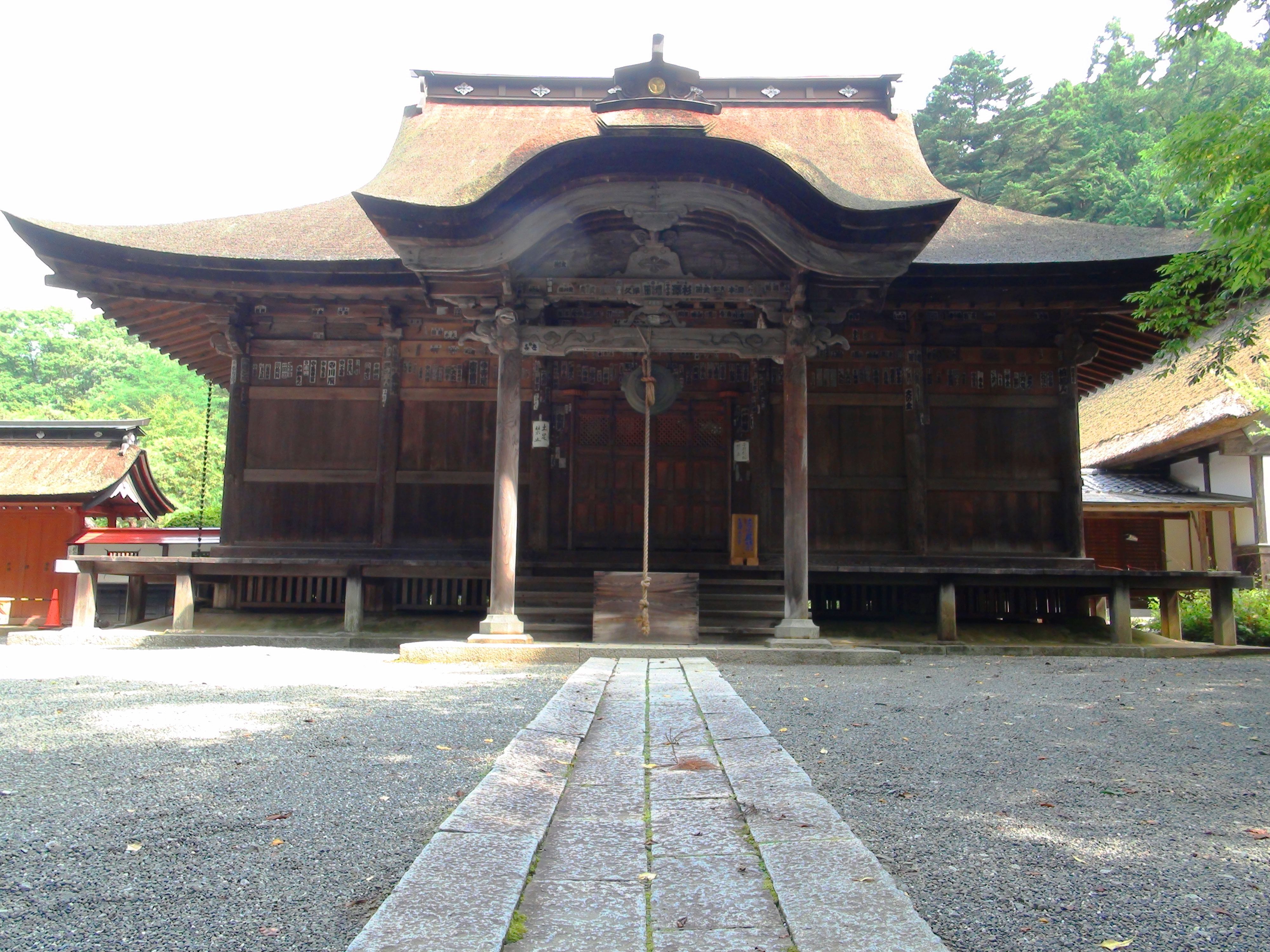 Unpoji-Temple main hall Koshu City The main hall of a Buddhist temple